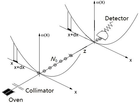 In the the Copenhagen interpretation of quantum mechanics, the atomic detector registering the number of atoms is also a measured object.